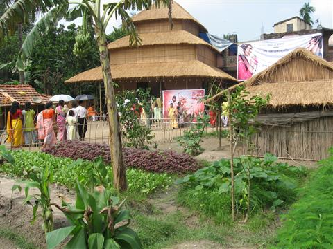 Durga Puja 2008